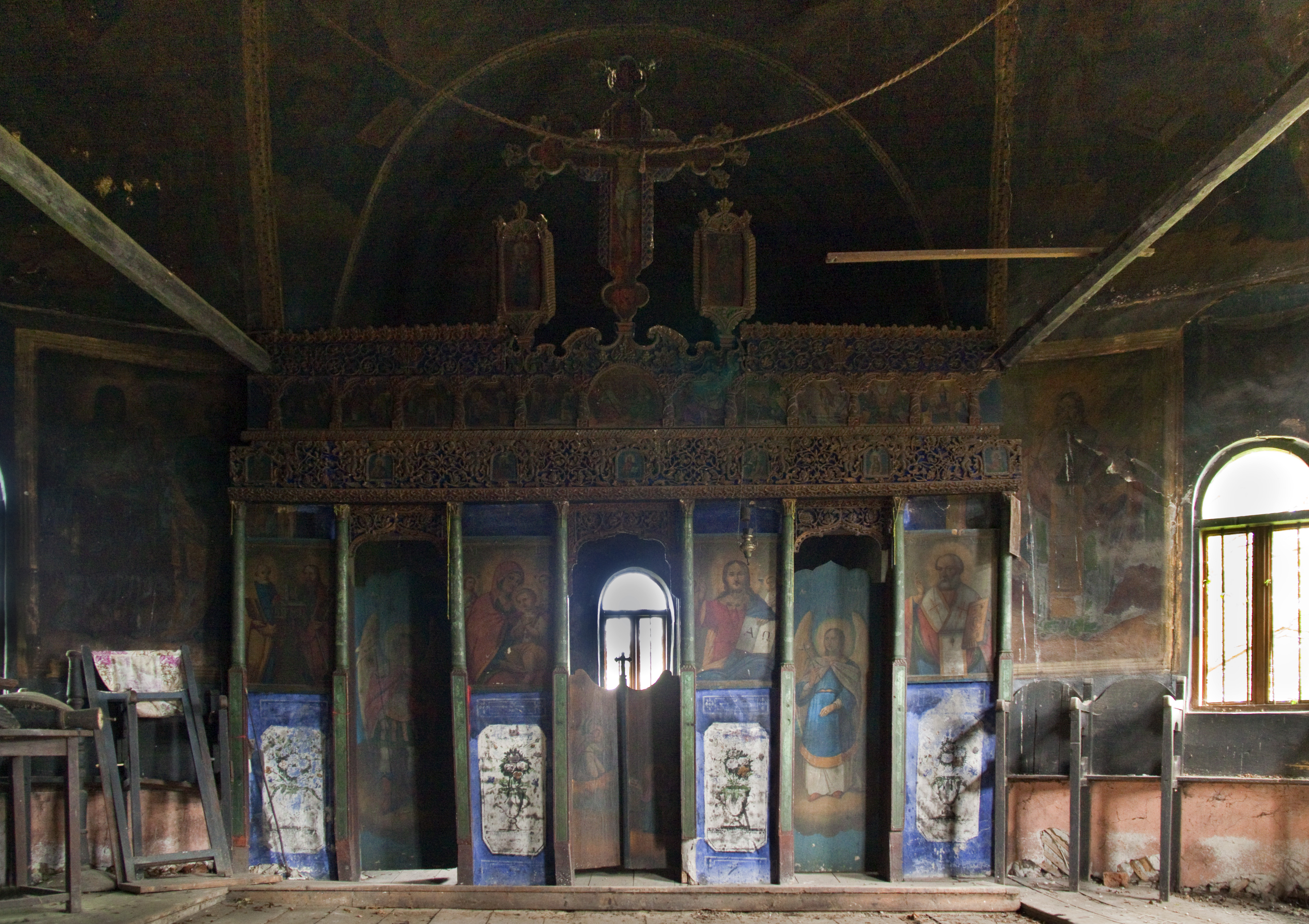 Şirineasa, Vâlcea county, Romania: the wooden church, the icon screen.